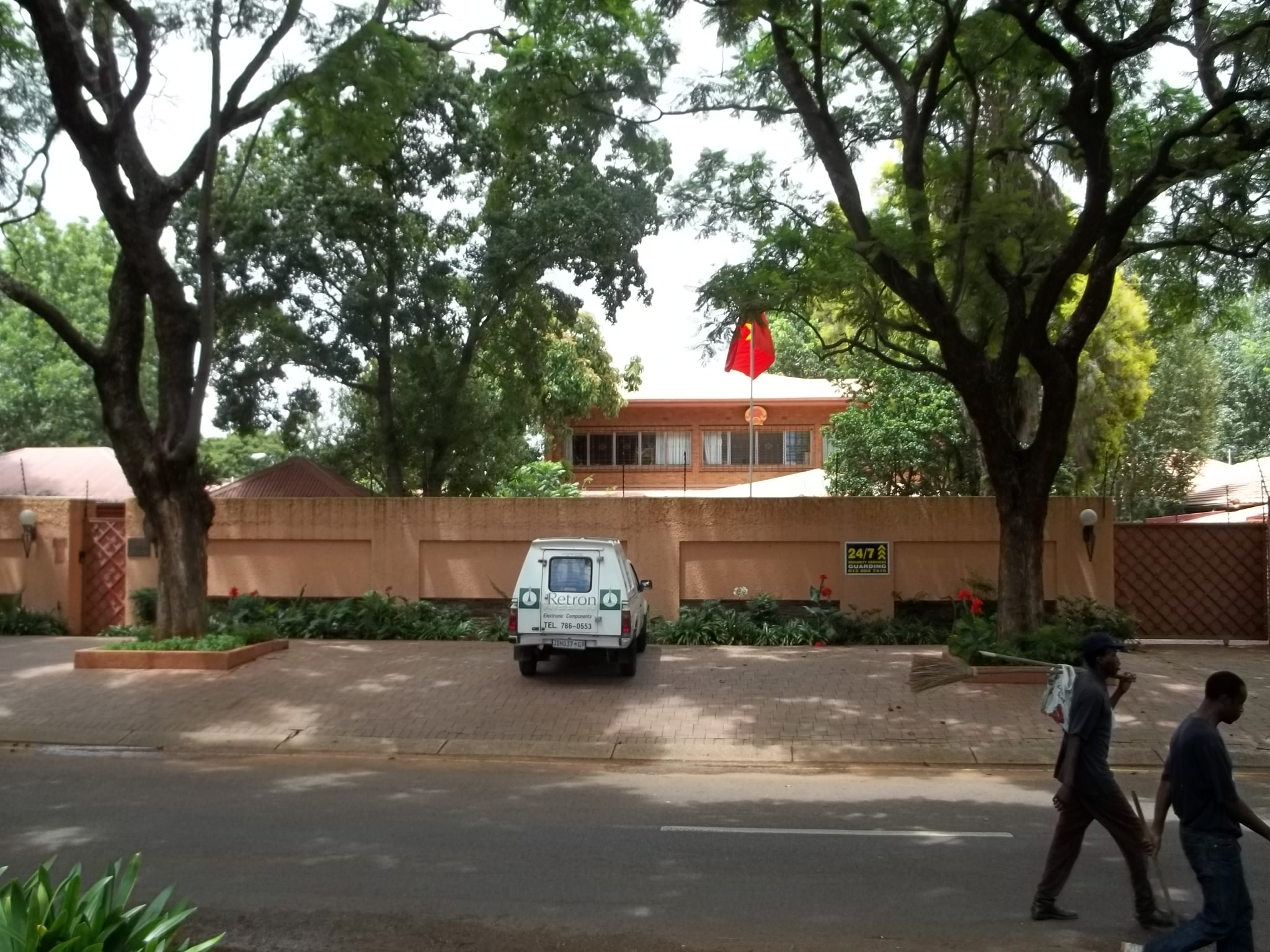 VN in ZA